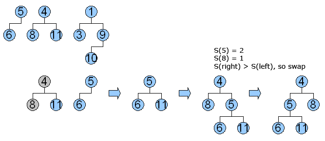 More steps to initialize a min height biased leftist tree. Each line is the queue after the first two items in the previous line have been merged.